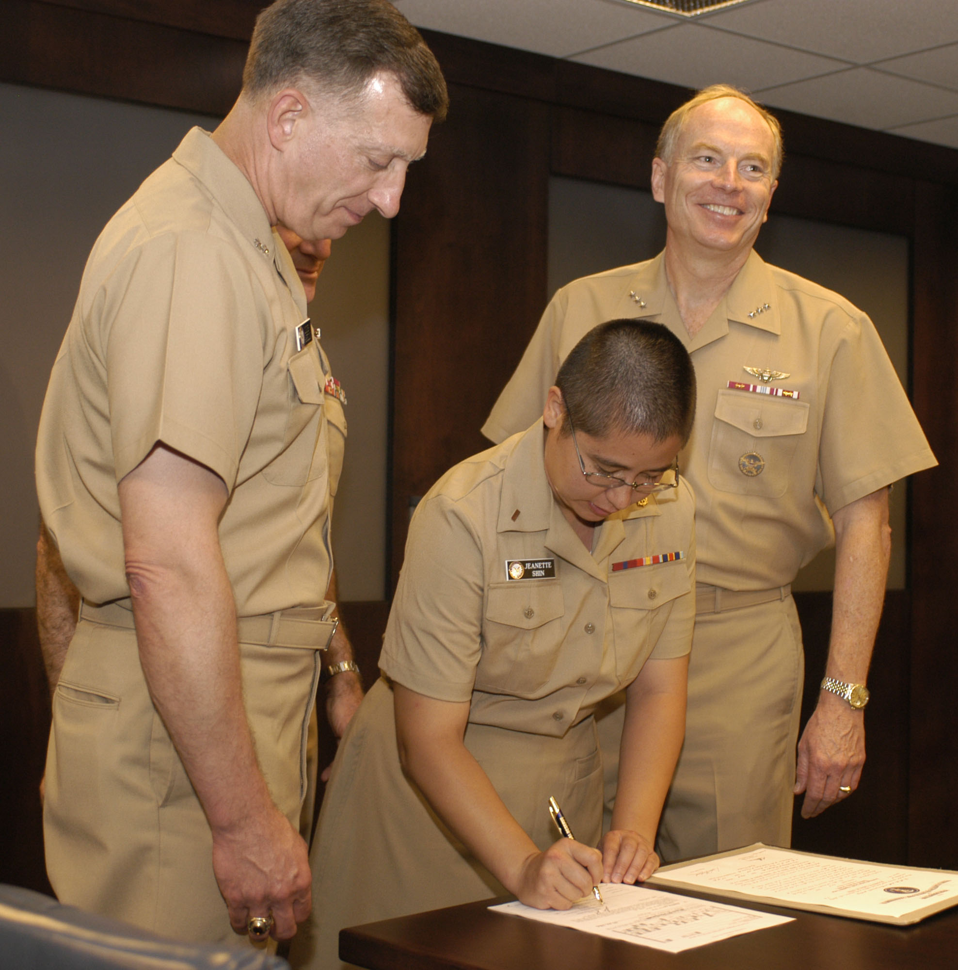 Pentagon, Washington, D.C. (July 22, 2004) - Chief of Navy Chaplains, Rear Adm. Louis V. Iasiello, left, watches with Commander, Naval Reserve Force, Vice Adm. John Cotton as newly commissioned Lt. j.g. Jeanette Gracie Shin signs her Oath of Office paperwork in the Pentagon. Shin is the first Buddhist Chaplain in the Department of Defense and first entered the military by enlisting in the Marine Corps in 1988. She served for four years and following her honorable discharge from the Marine Corps, earned a Bachelor of Arts degree from George Mason University in Philosophy and Religious Studies. Later earning a Master of Arts degree in Buddhist Studies from the Graduate Theological Union/Institute of Buddhist studies located in Berkeley, California. U.S. Navy photo by Mr. Damon J. Moritz (RELEASED)